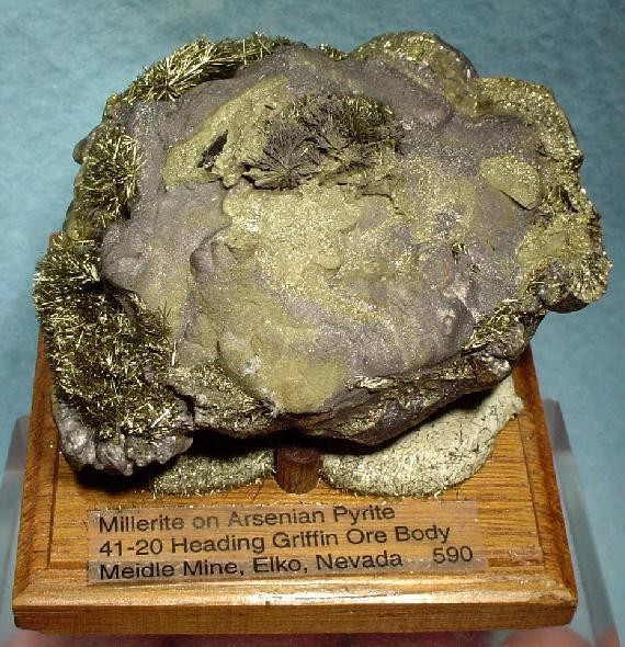 Millerite, Pyrite (Var.: Arsenian Pyrite) Locality: Meikle Mine, Bootstrap District, Elko County, Nevada, USA (Locality at ) Size: 7.3 x 5.3 x 4.0 cm. Radiating clusters of splendent, brassy millerite needles encircle a melted-look nodule of arsenian pyrite on this superb and unusual specimen from the famous Meikle Mine of Nevada. The millerite clusters look like a wreath or tiara on the pyrite. The exact mine location is the 41-20 Heading of the Griffin Ore Body.